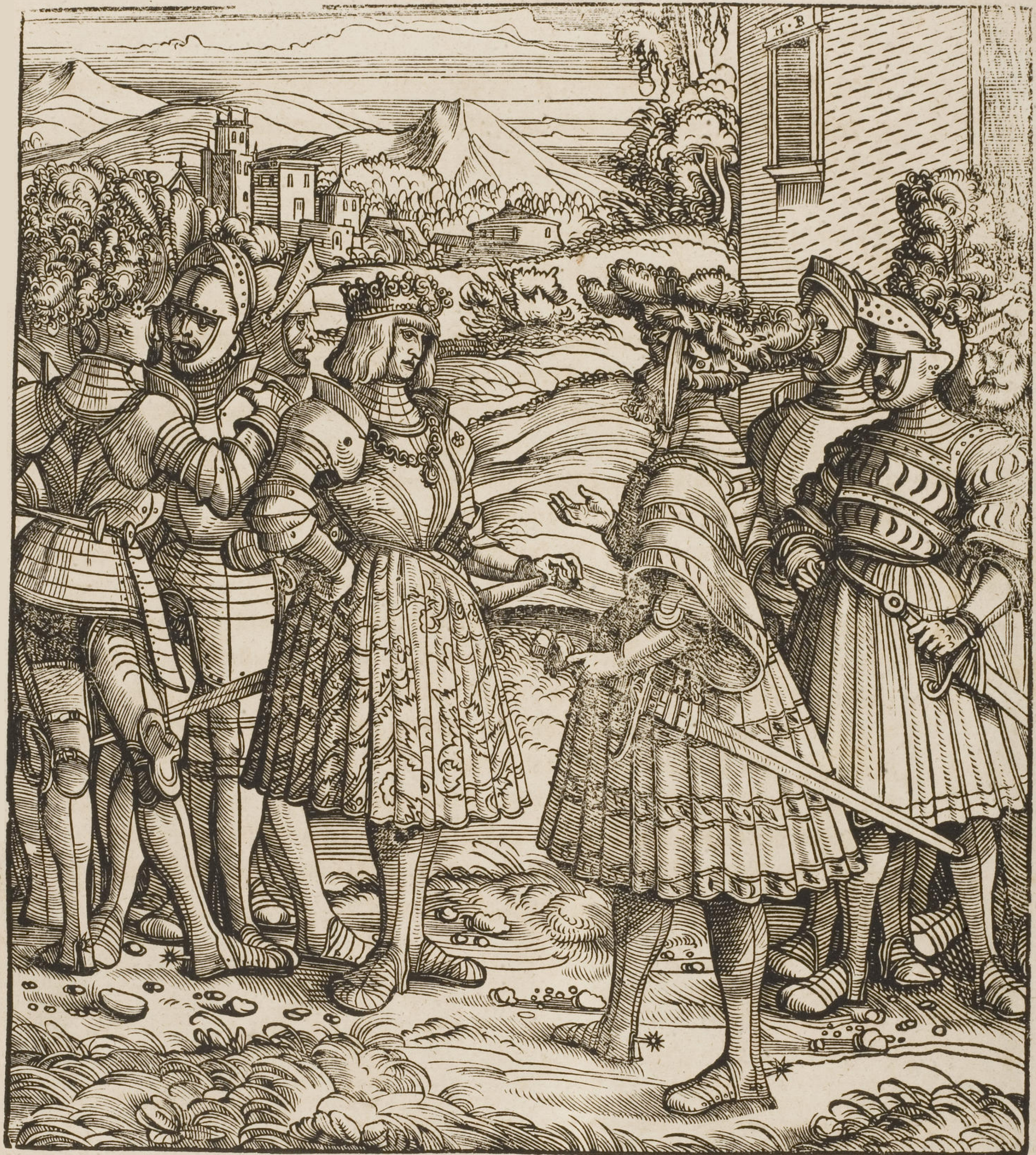 See title